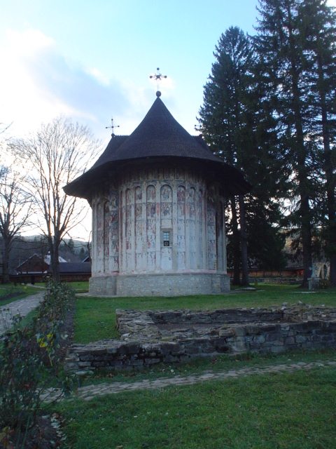 Humor Monastery